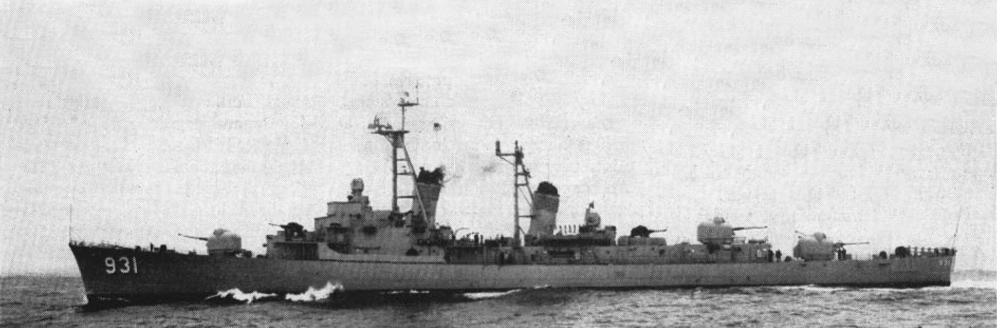 The U.S. Navy destroyer USS Forrest Sherman (DD-931). Forrest Sherman was the lead ship of the first class of U.S. Navy destroyers designed after the Second World War. She was commissioned on 9 November 1955.